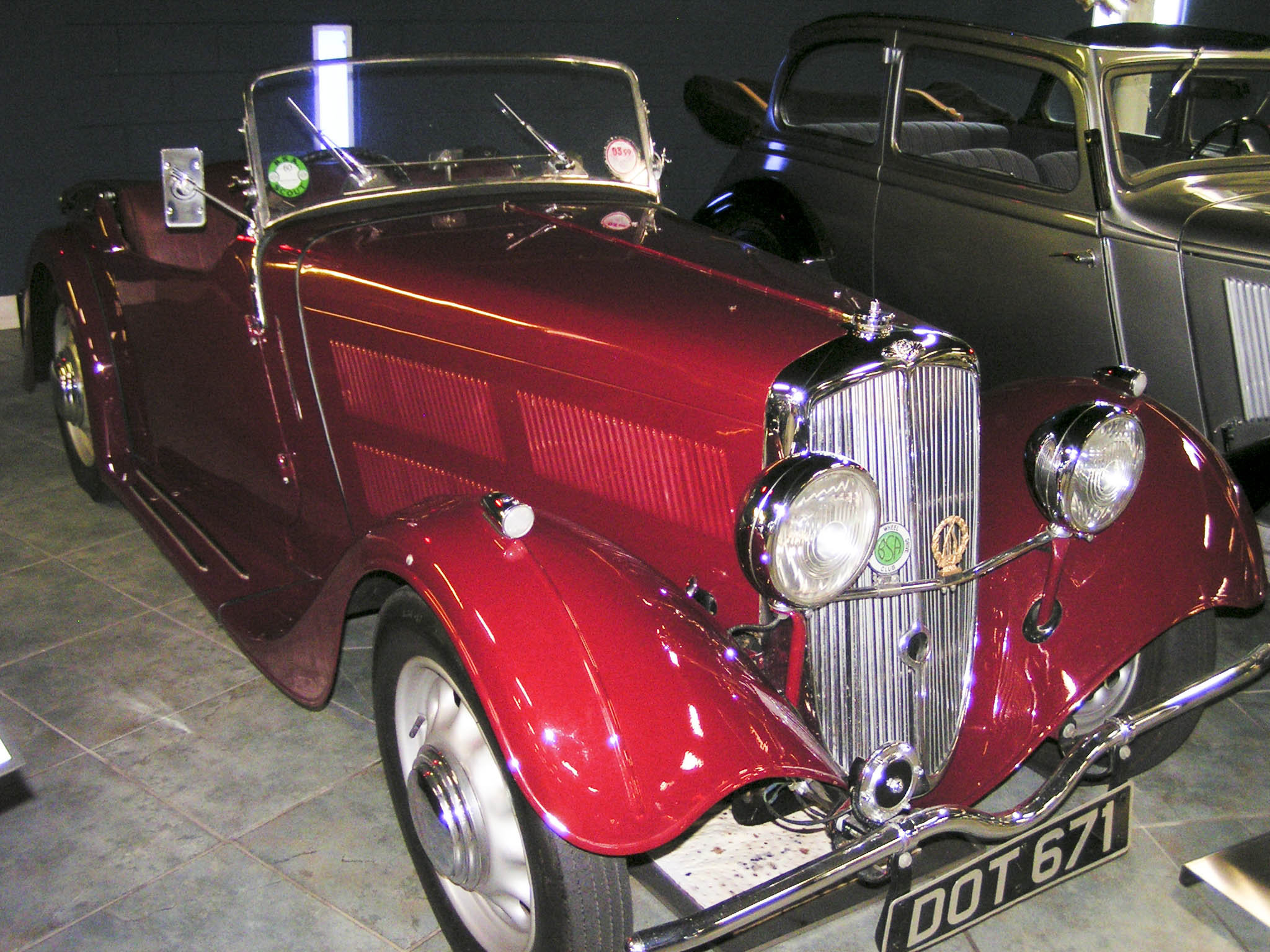 BSA Scout 1204cc side valve four cylinder engine with a three speed gearbox and front wheel drive. id?